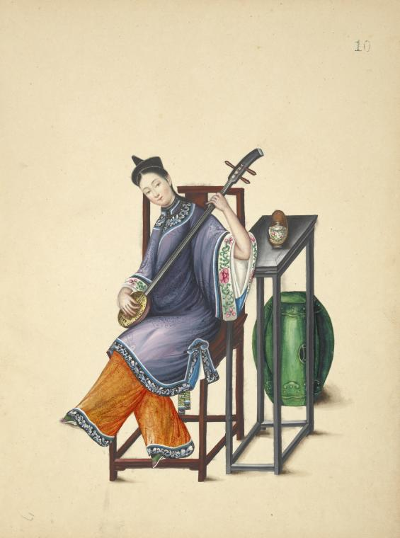 China watercolours from 1800s. Woman playing a sanxian.